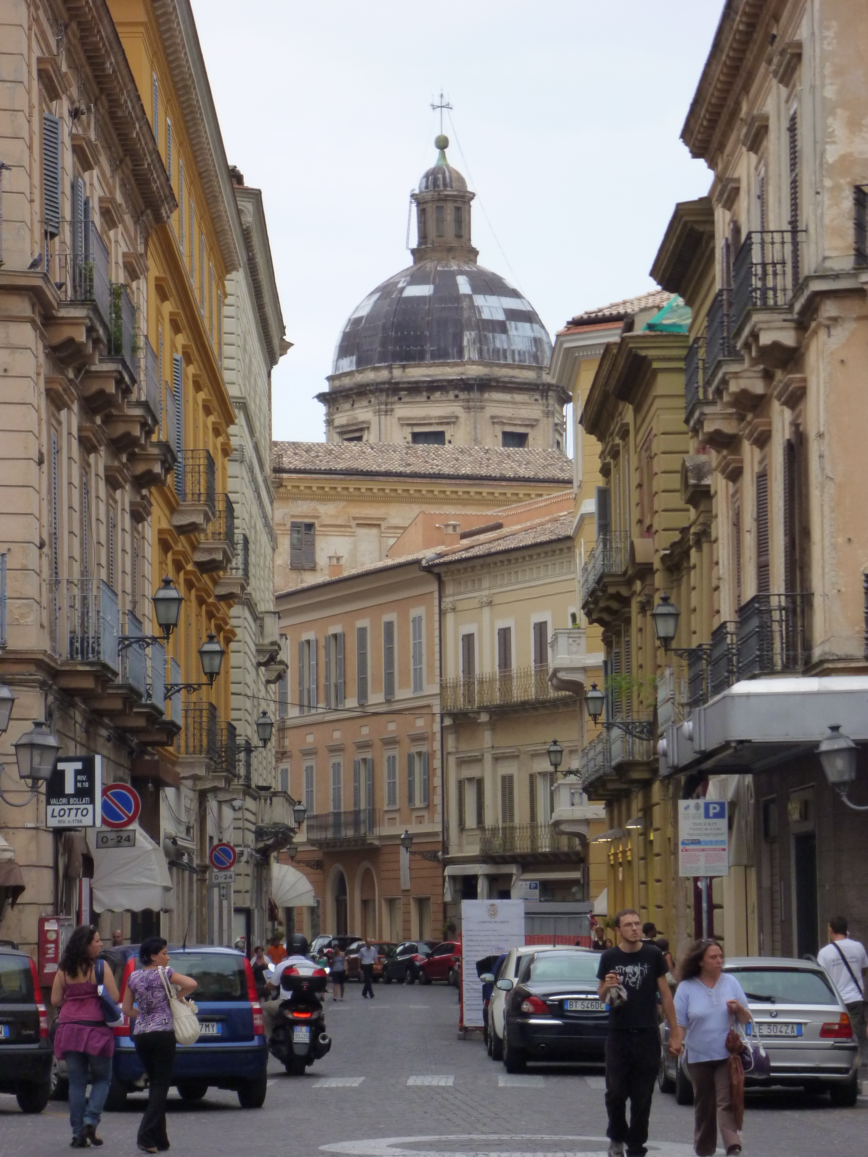 Corso Marrucino, Chieti, Abruzzo